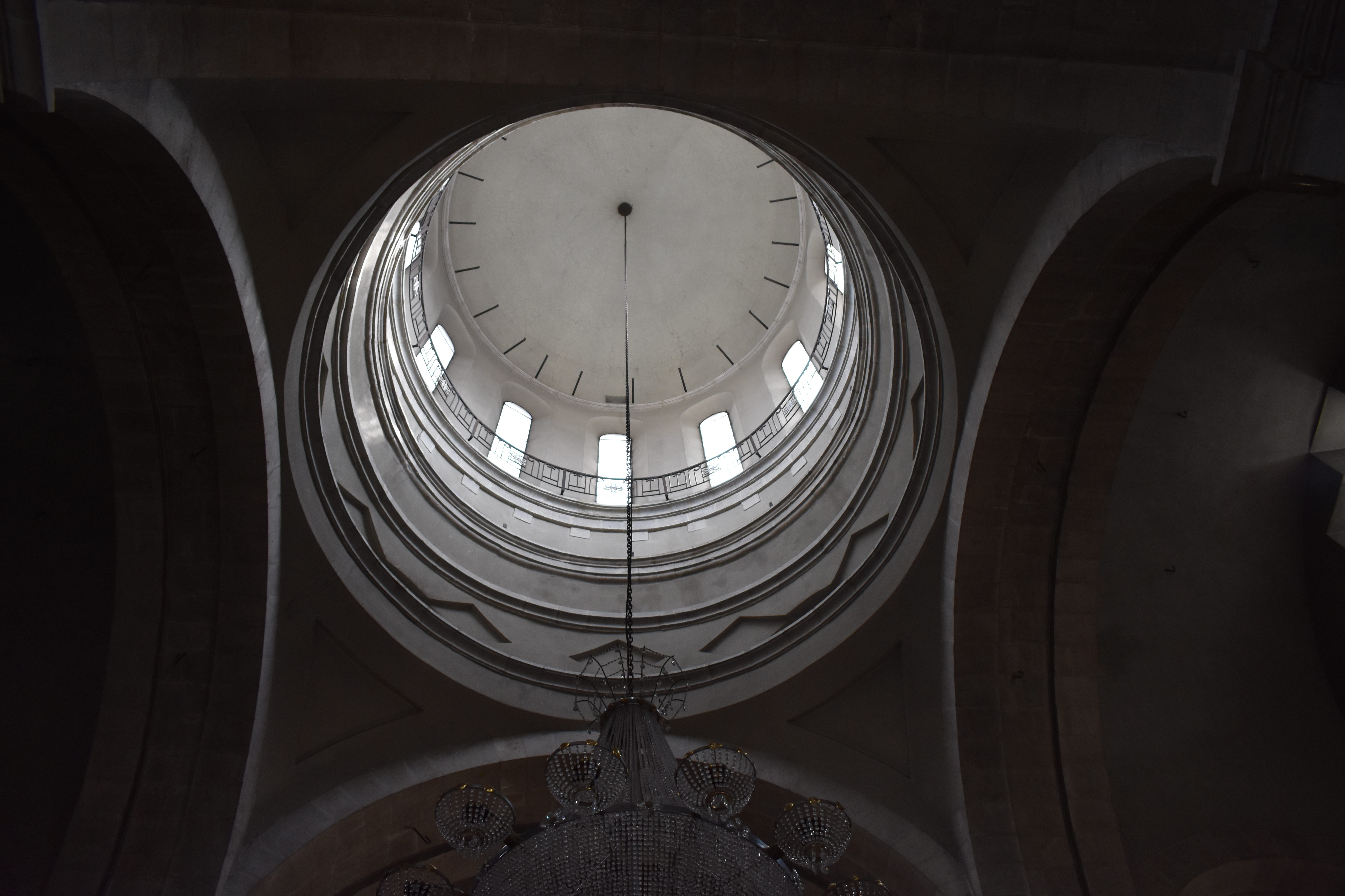 Ghazanchetsots Cathedral